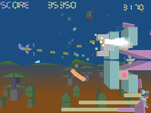 Screenshot of the freeware video game TUMIKI Fighters This image was uploaded in the JPEG format even though it consists of non-photographic data. This information could be stored more efficiently or accurately in the PNG or SVG format. If possible, please upload a PNG or SVG version of this image without compression artifacts, derived from a non-JPEG source (or with existing artifacts removed). After doing so, please tag the JPEG version with Superseded|NewImage.ext and remove this tag. This tag should not be applied to photographs or scans. For more information, see BadJPEG .